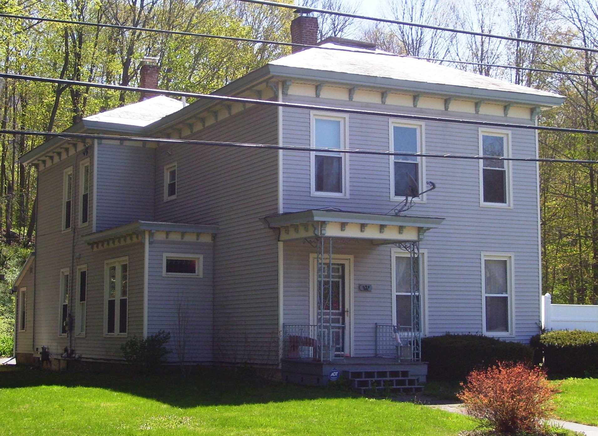 The Charles Browne House at 932 South Church Street in North Adams, Masachusetts was built in 1869 in the Italianate style, and was added to the National Register of Historic Places in 1985.